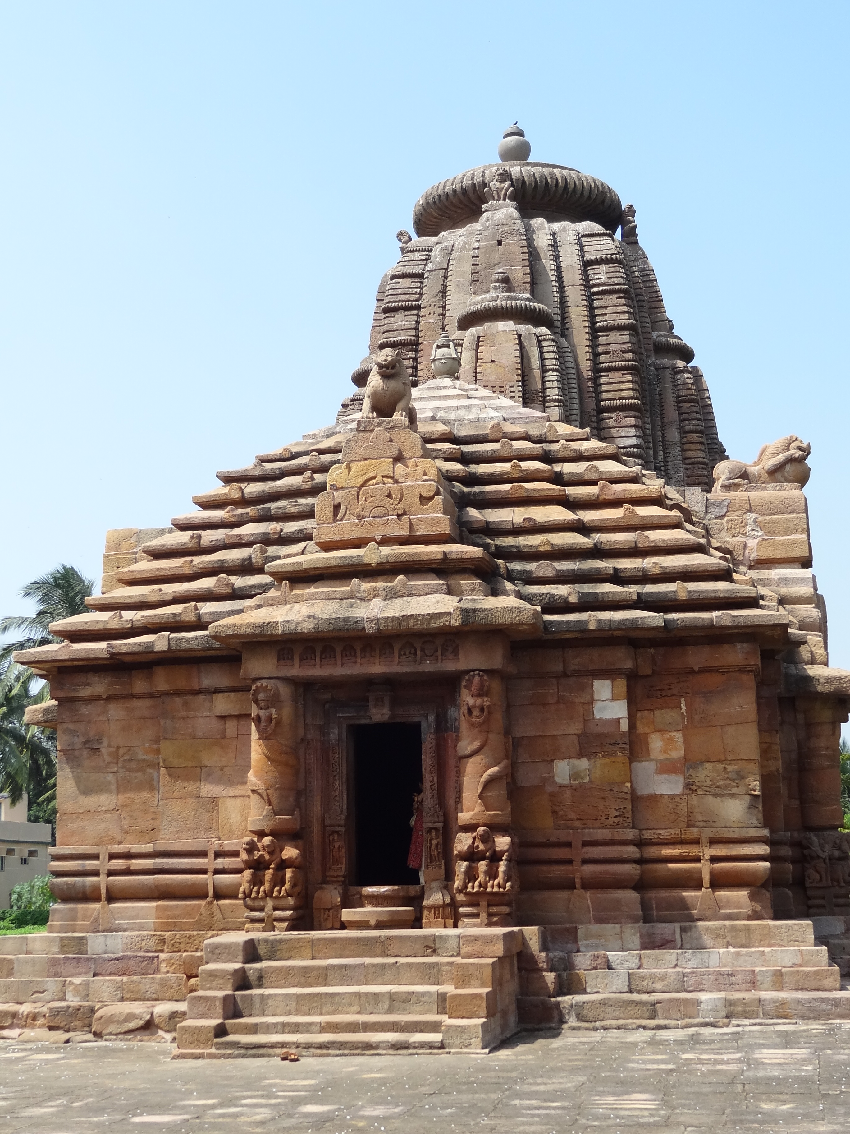 Rajarani Temple, Bhubaneswar